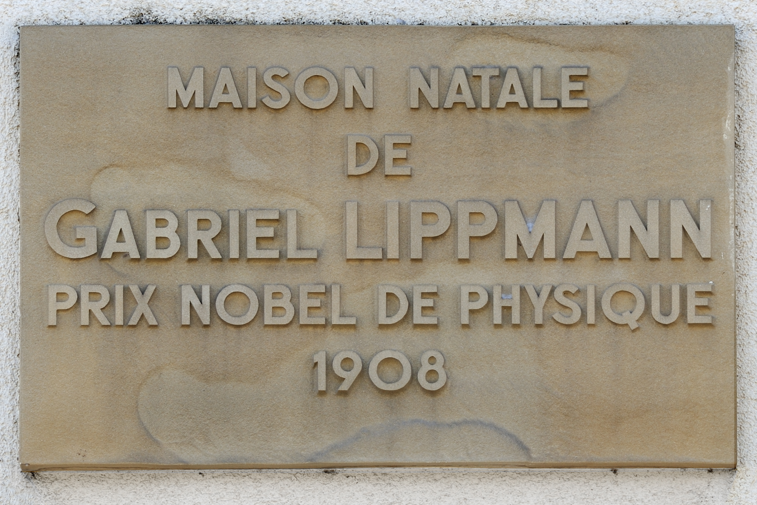 Luxembourg City, quarter of Bonnevoie: plaque on the birth house of Gabriel Lippmann (1845-1921), physics Nobel laureate in 1908..